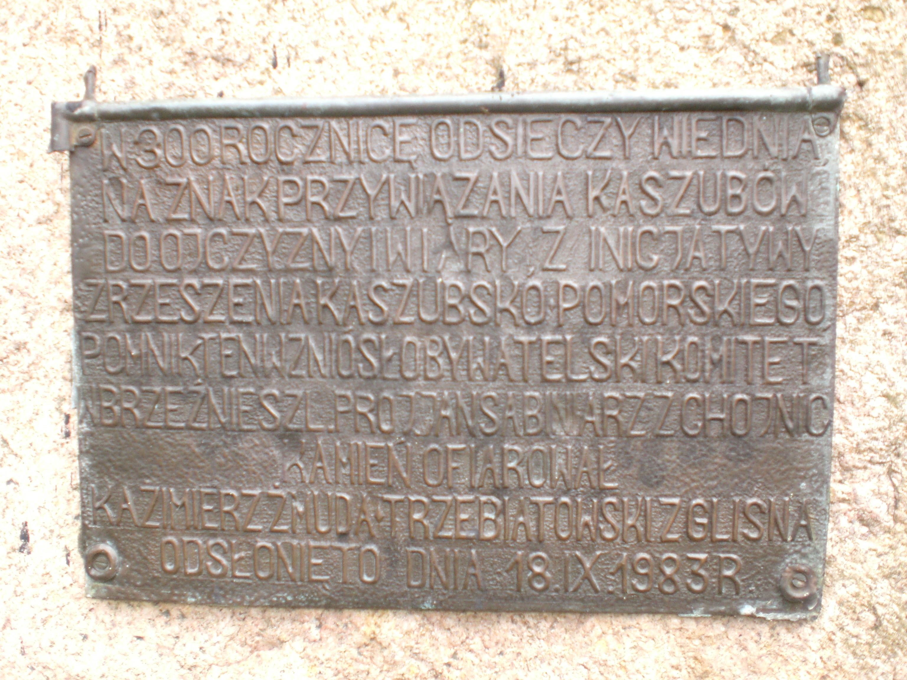 Plaque in Brzeźno Szlacheckie "Kashubians by Vienna 1683"